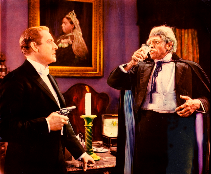 Colored lobby card featuring Fredric March and Holmes Herbert in Dr. Jekyll and Mr. Hyde (Paramount, 1931). Image is assumed to be in the public domain as no copyright notice has been attached.